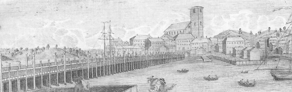 Detail: Bridge over Charles River, Boston